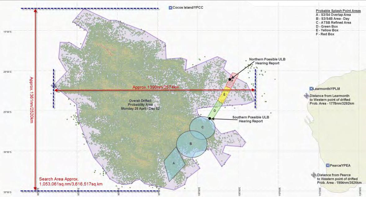 This map shows search areas and the possible locations of debris from Malaysia Airlines Flight 370 taking account the effects of ocean drift. The background image was generated by computer models of debris originating in search areas S3-5 between March 28-April 27 and taking into account the effects of wind and currents on a variety of debris characteristics. The search areas A-E represent possible splash points based on several models or the aircraft's route and lie along an arc. This arc is equidistant to the satellite which Flight 370 was in contact and is based on the calculated distance from the satellite at its final contact. The satellite does not record the direction of received signals. Numerous models were made and run to determine the most probable location of the aircraft along the arc, resulting in various search areas: S1-6 (not shown) and the three colored areas (D, E, & F).